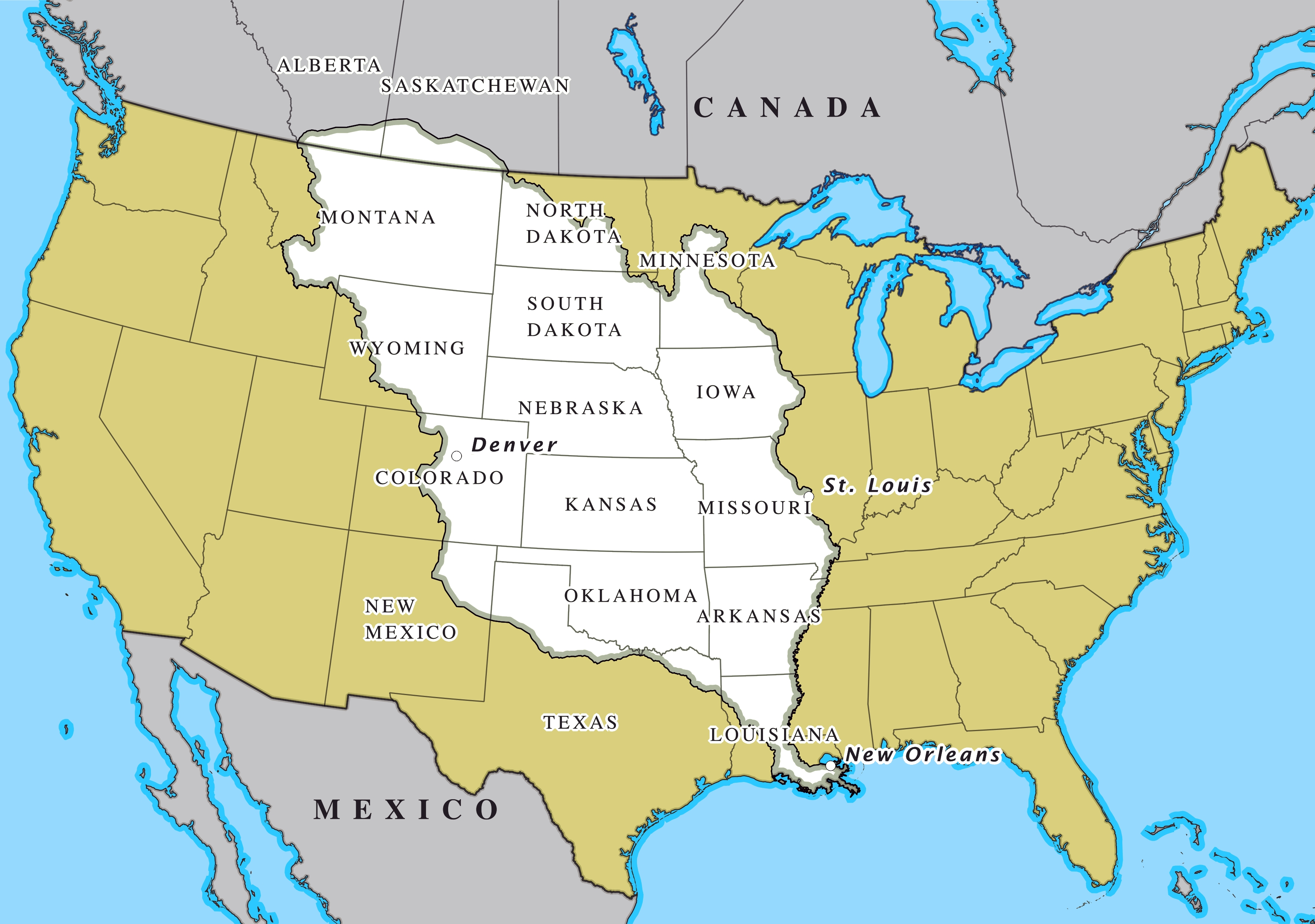 The Louisiana Purchase Projection: USA Contiguous Albers Equal Area Conic (EPSG:102003) Sources: Natural Earth and Portland State University (